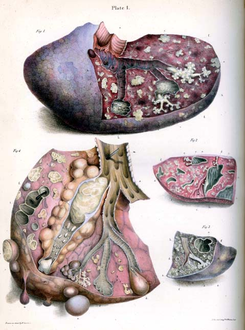 Detail of plate 1: Tubercle